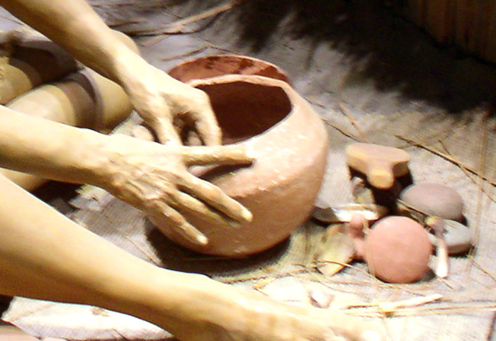 A diorama showing a Mississippian potter and her tools, as she shapes a pottery vessel.